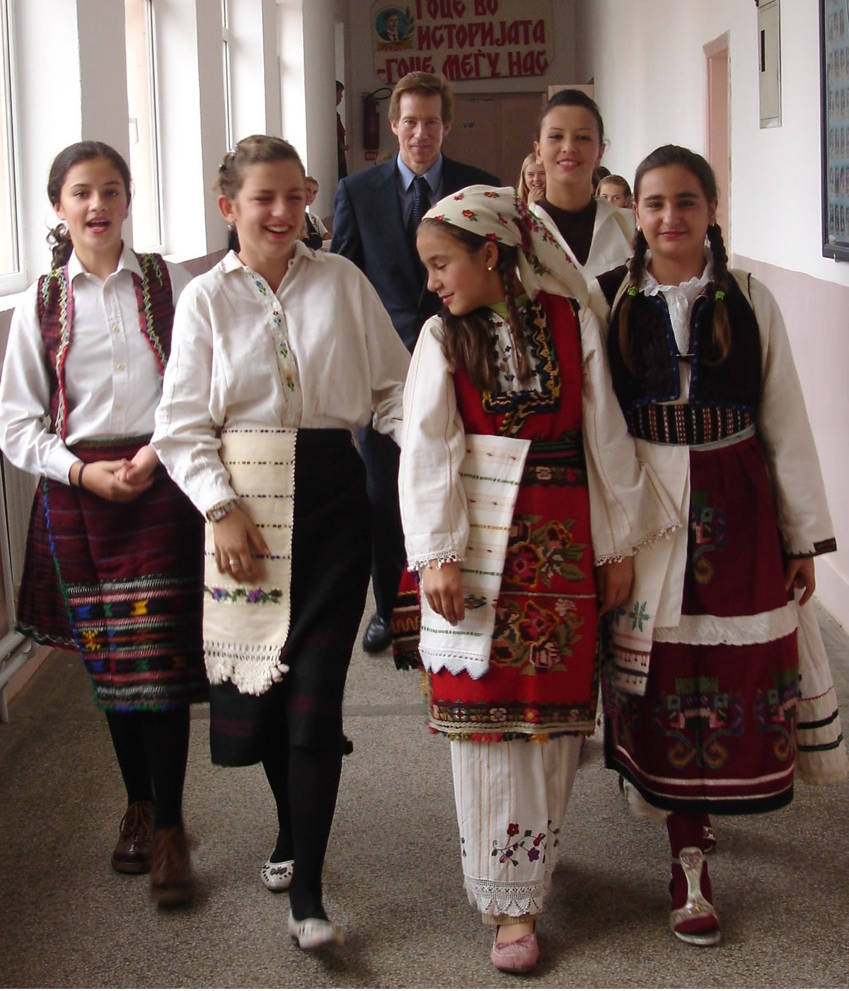 Thomas Navratil with the Students of the “Goce Delčev” primary school, Vasilevo, Macedonia